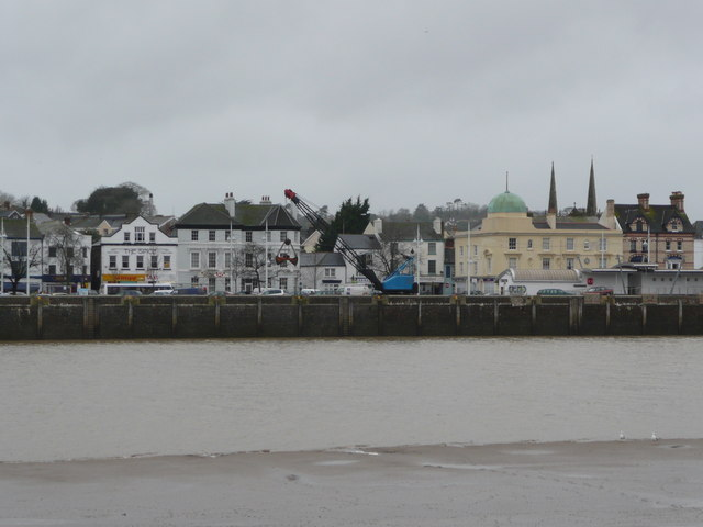 Bideford from East-the-Water 2 Note the copper-domed building on the Quay.